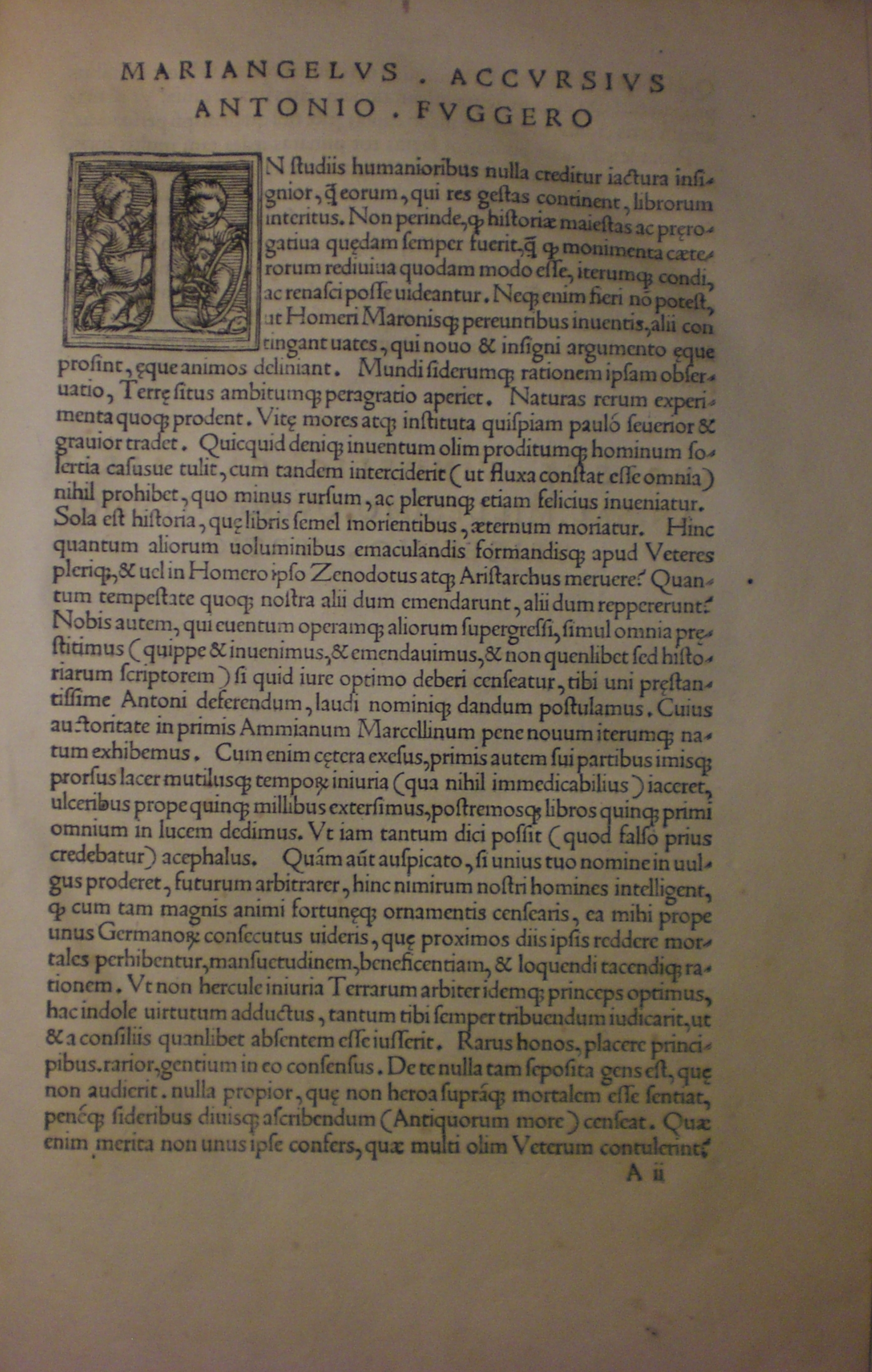 Page 3 of Accursius' edition of the works of Roman historian Ammianus Marcellinus (Augsburg 1533). This page shows the dedication to the Augsburg merchant and banker Anton Fugger (1493—1560).